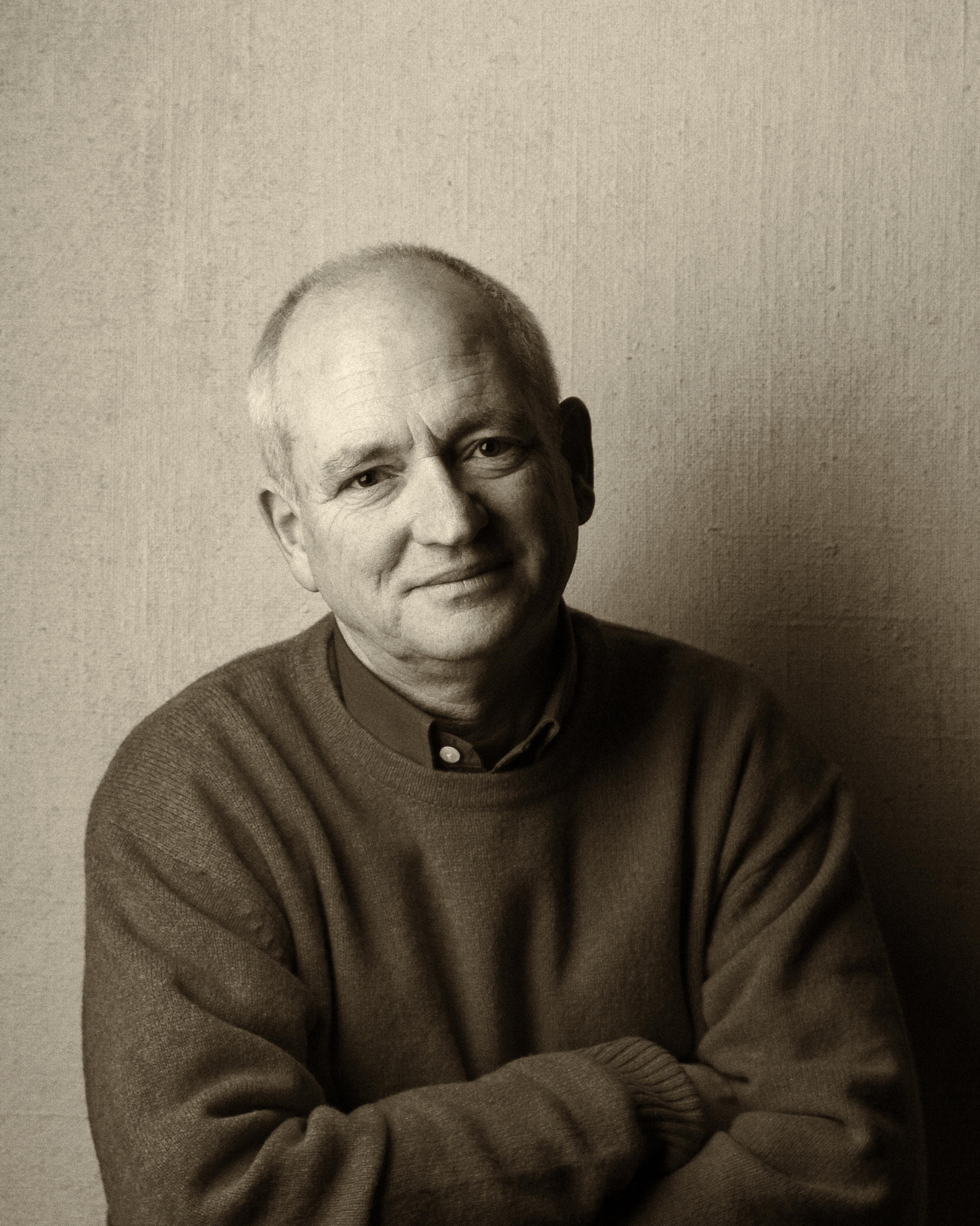 Robert Elsie